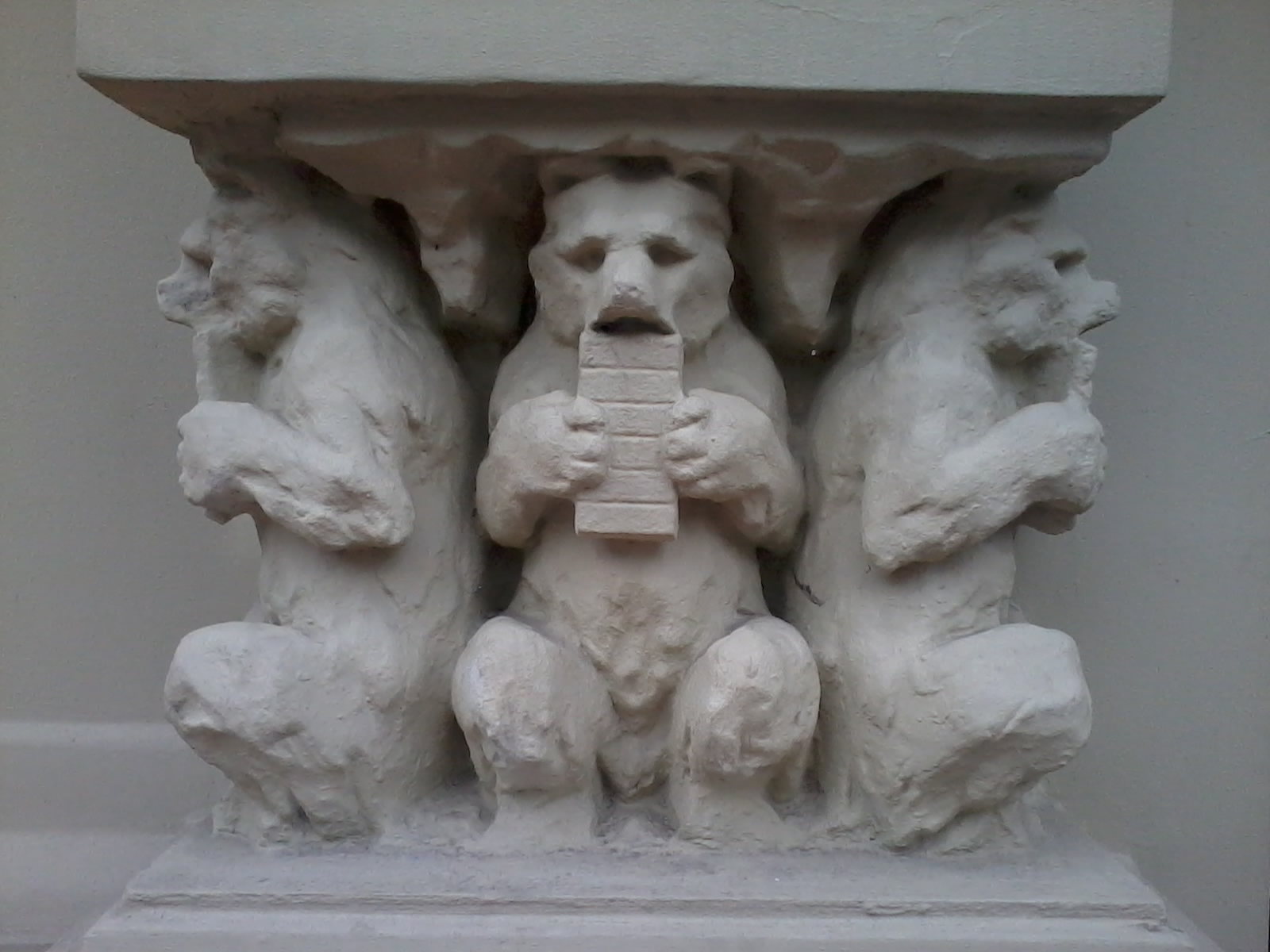 Detail of exterior of building at Gediminas Ave. 2, Vilnius